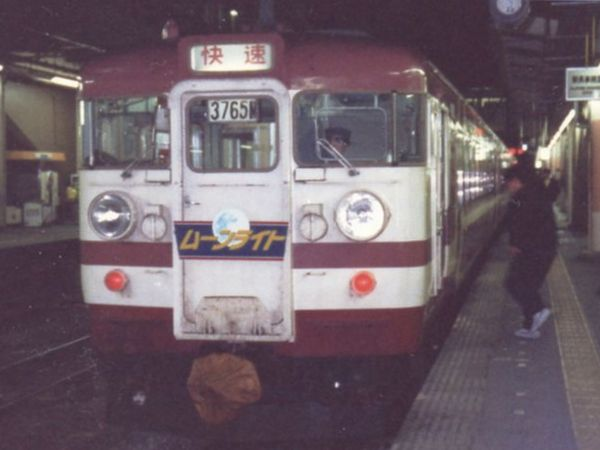 East Japan Railway Company, EMU type 165 Midnight Rapid Service "Moonlight" at Takasaki Sta.